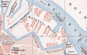 Kaiserliche Werft Danzig shipyard map in Gdańsk/Danzig (ca. 1896)